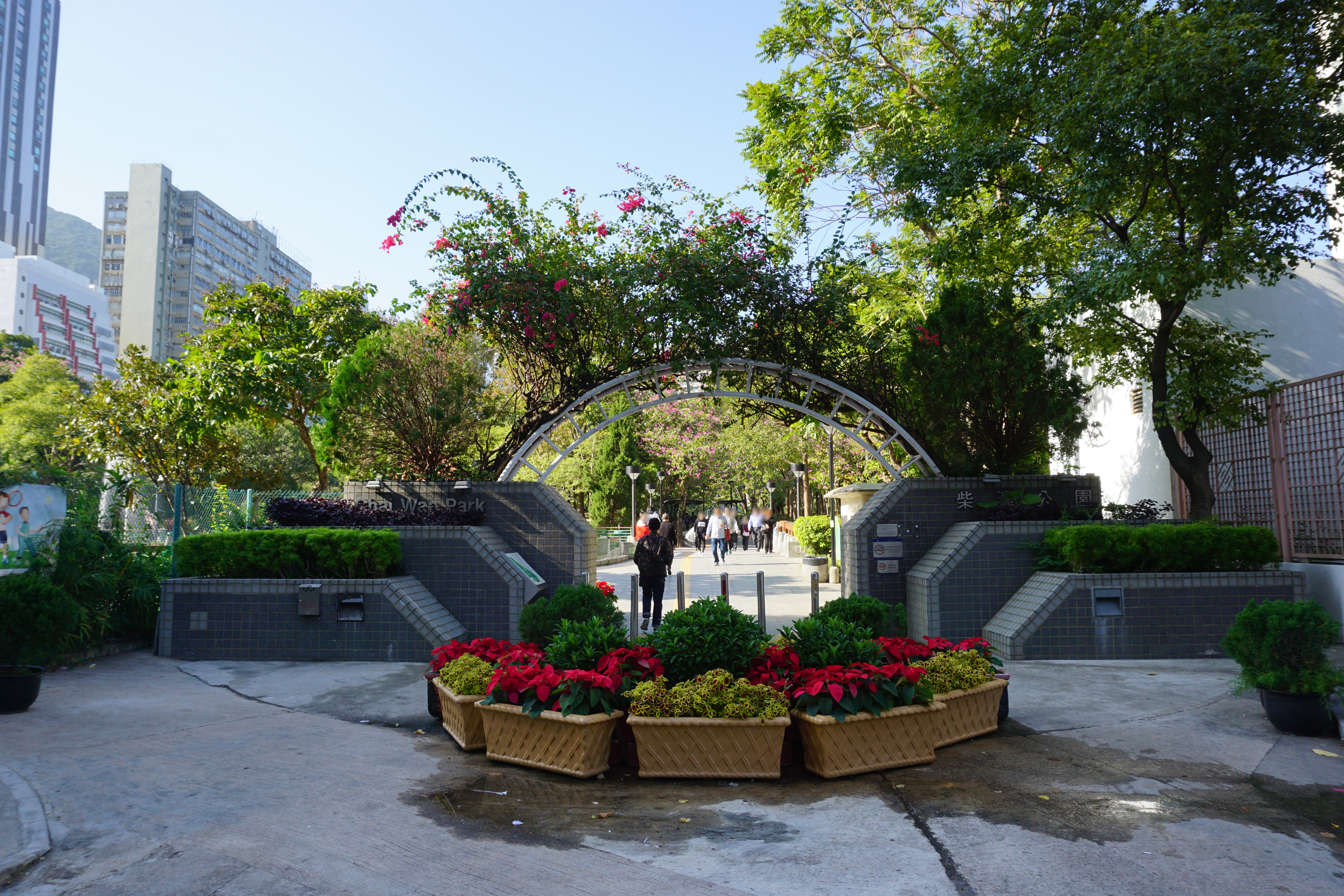 Chai Wan Park in Eastern District, Hong Kong.